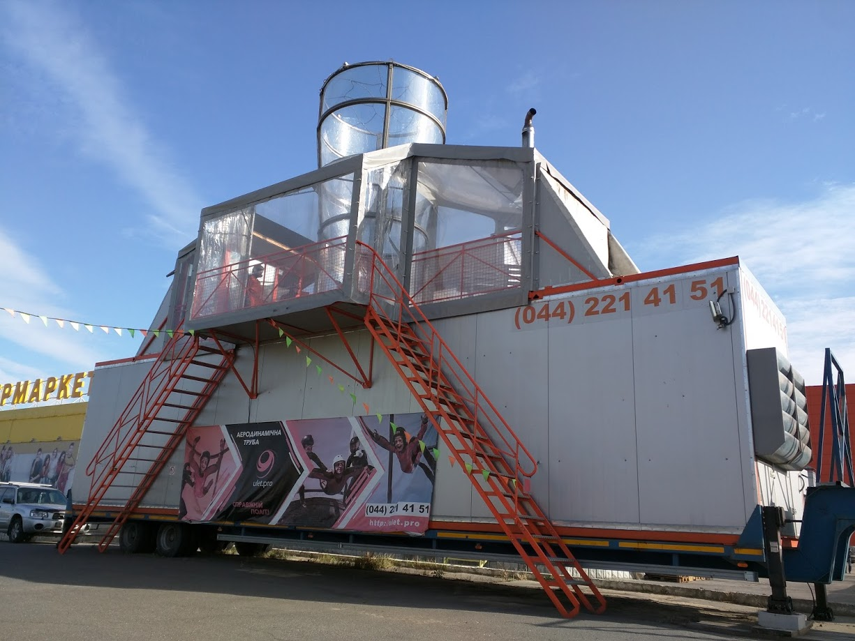 Mobile Vertical Wind Tunnel in Kyiv, Ukraine